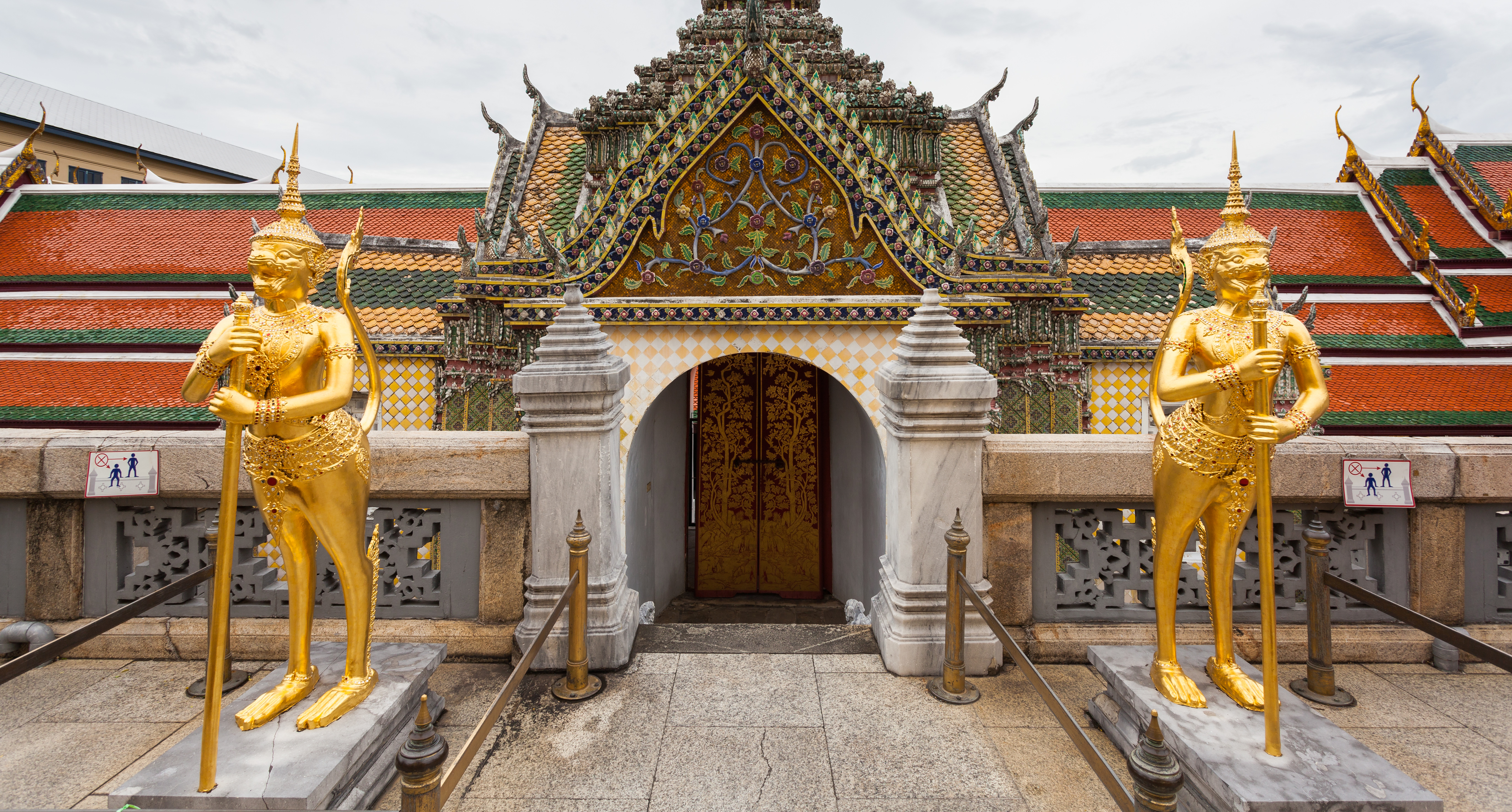 Grand Palace, Bangkok, Thailand